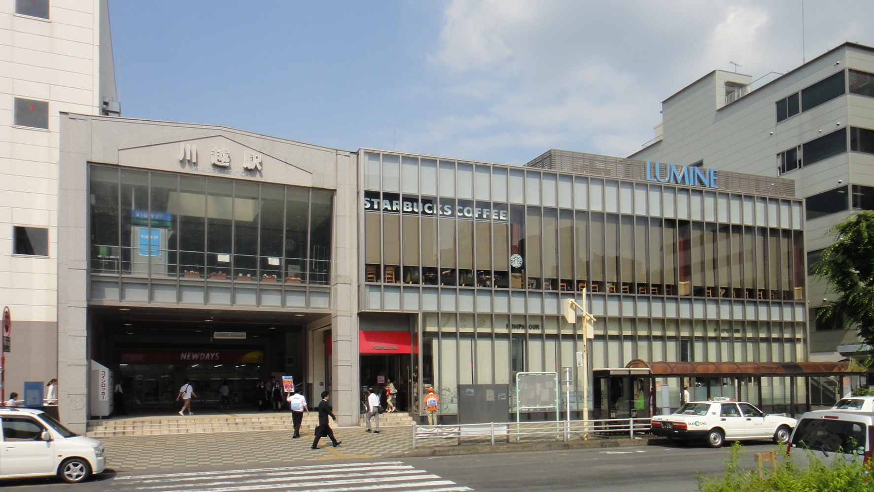 West exit and forecourt of Kawagoe Station on the Tobu Tojo Line and JR Kawagoe Line